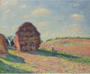 Work by Alfred Sisley